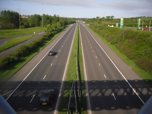 M8 to Glasgow This view is from the M8 Harthill Footbridge